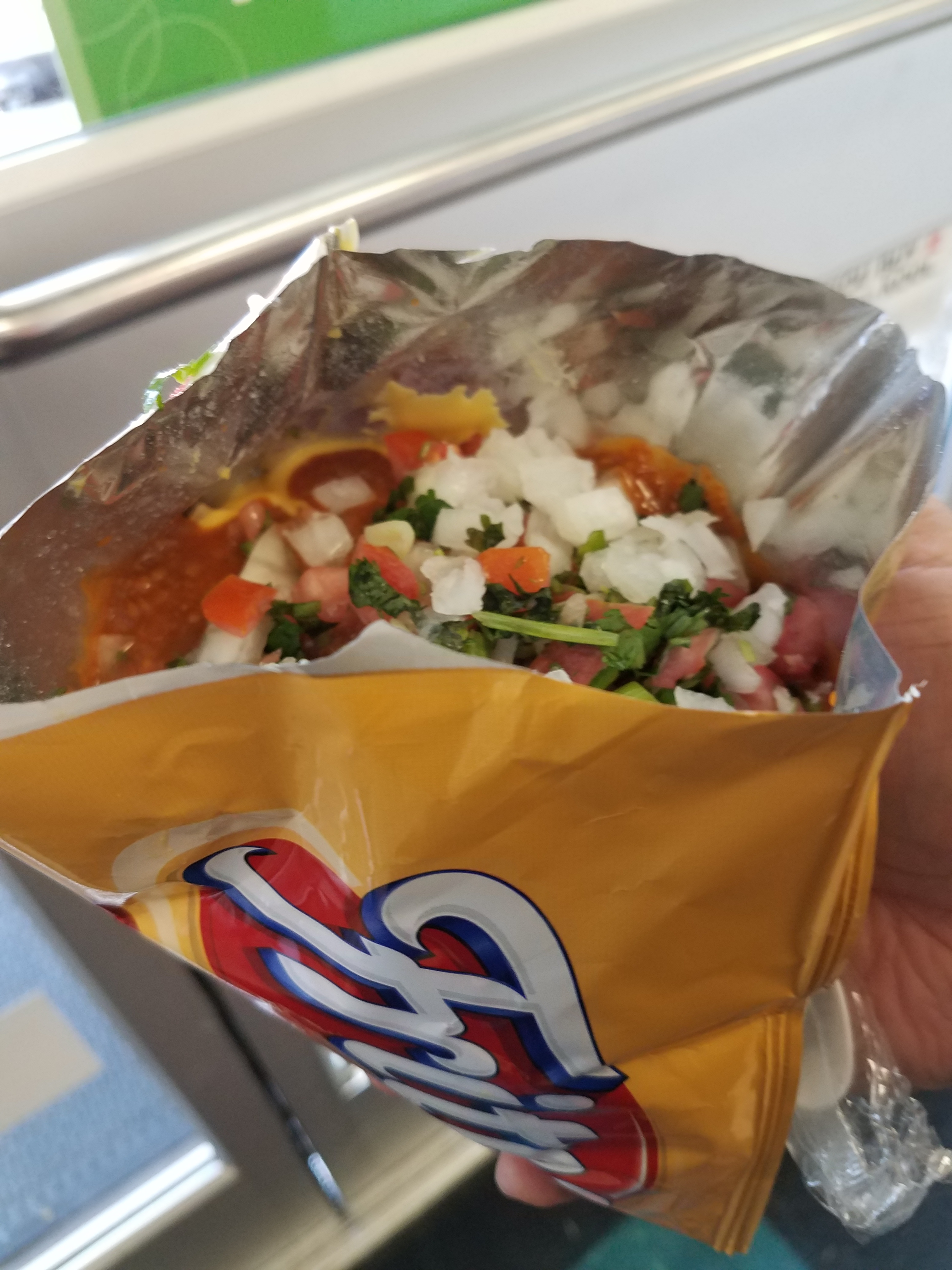 A frito pie made from components purchased at 7 Eleven in the Del Mar Heights neighborhood of San Diego